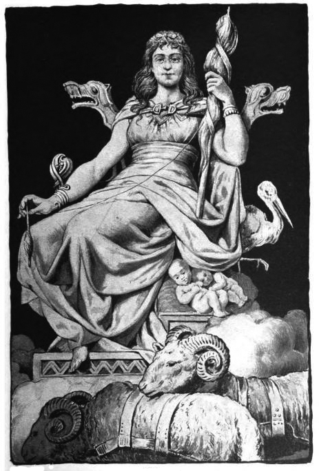 Captioned as "Frigga". The goddess Frigg sits atop a throne while holding and threading a distaff. To her bottom right perches a stork and two human babies. In the foreground before the throne mull two cuddling rams.